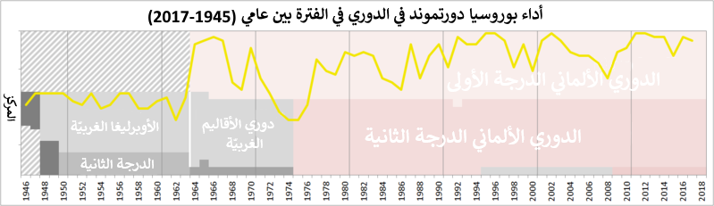 Chart of end-season table positions of Borussia Dortmund in the football league system of Germany (1945-2017).